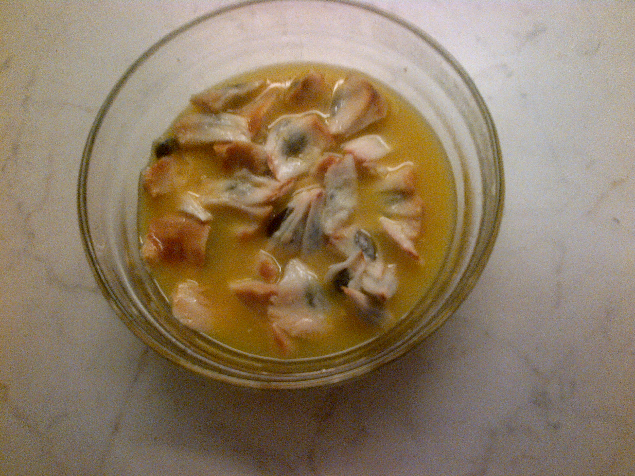 "Chirimoya alegre" en Ankara, Turkey.